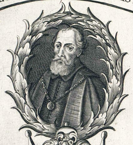 Graf Ludwig III. von Löwenstein (1530-1611)